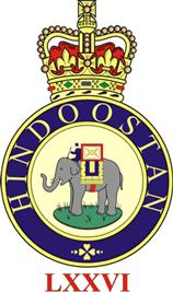 Insignia of the 76th Regiment of Foot